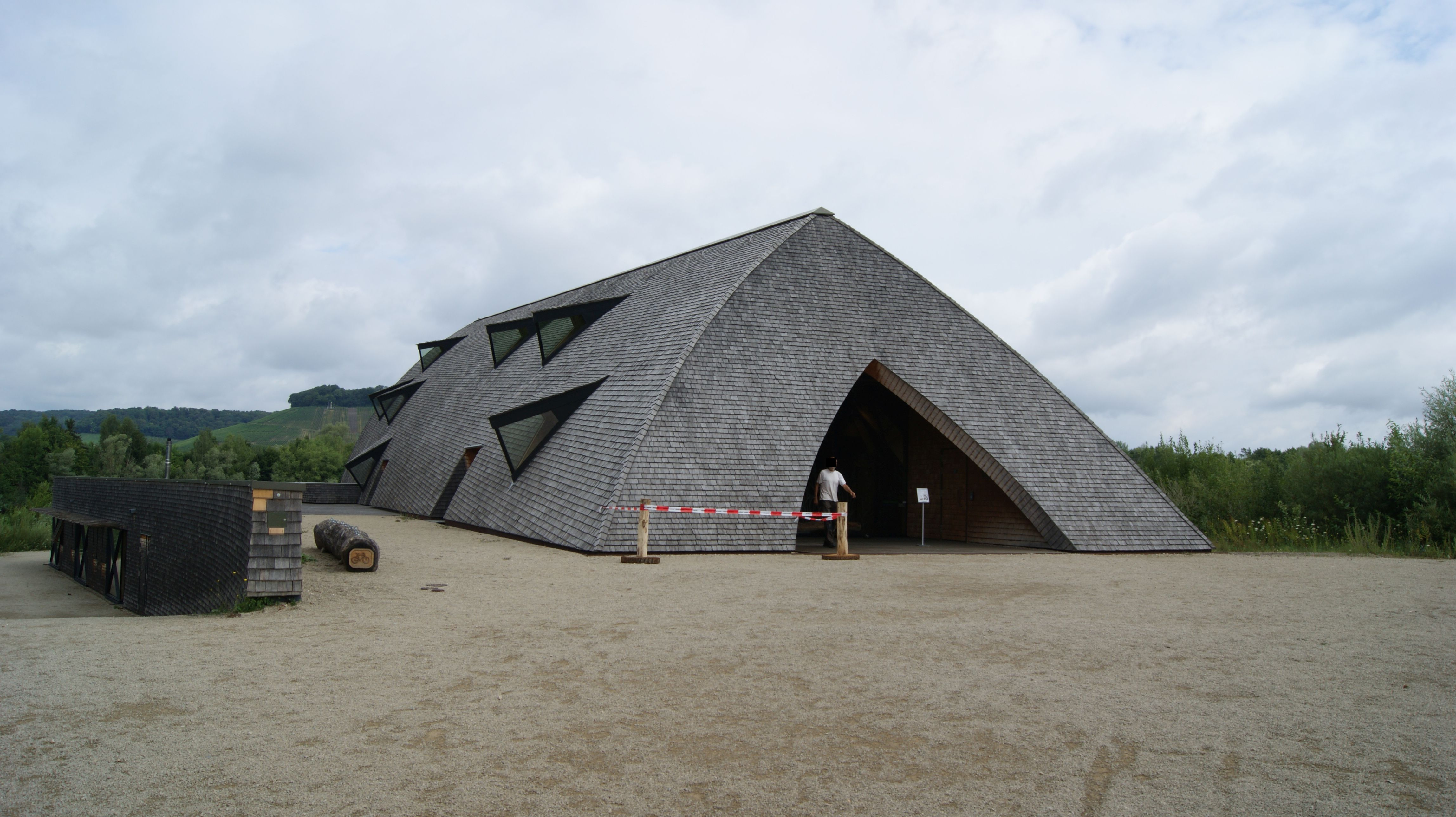 Nature Conservation Center / Visitor Center "Biodiversum - Camille Gira" (formerly "Nature et Forêt Biodiversum") in Remerschen (lux .: Rëmerschen or Riemëschen), municipality of Schengen in the Grand Duchy of Luxembourg. Architect: François Valentiny.